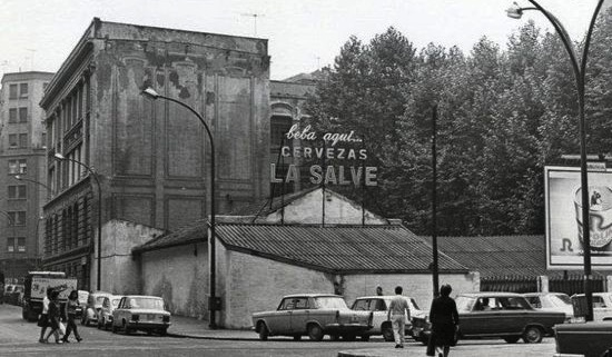 La Salve beer factory